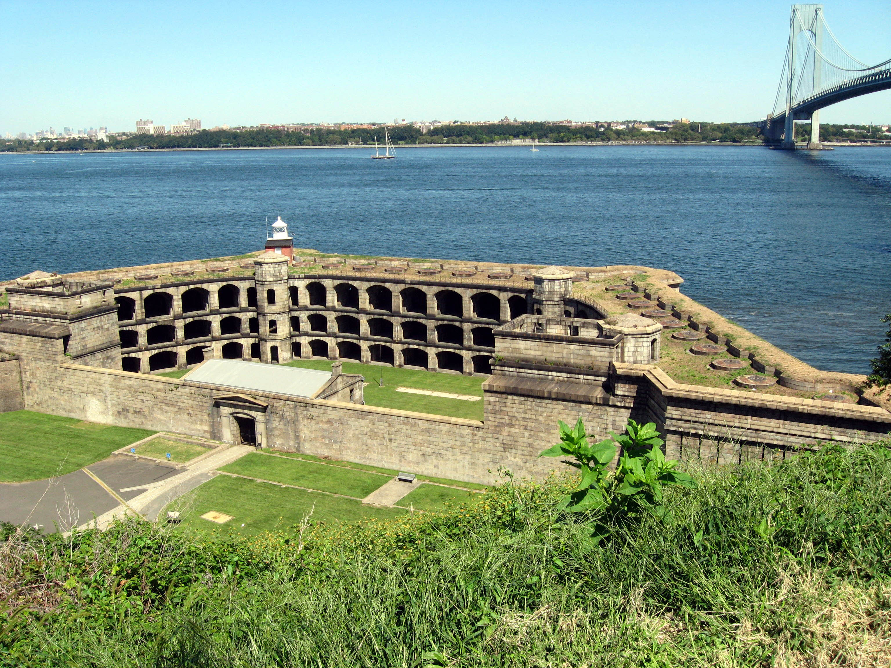 Looking northeast at Battery Weed and its lighthouse and Brooklyn on a clear, sunny midday. ZIP 10305